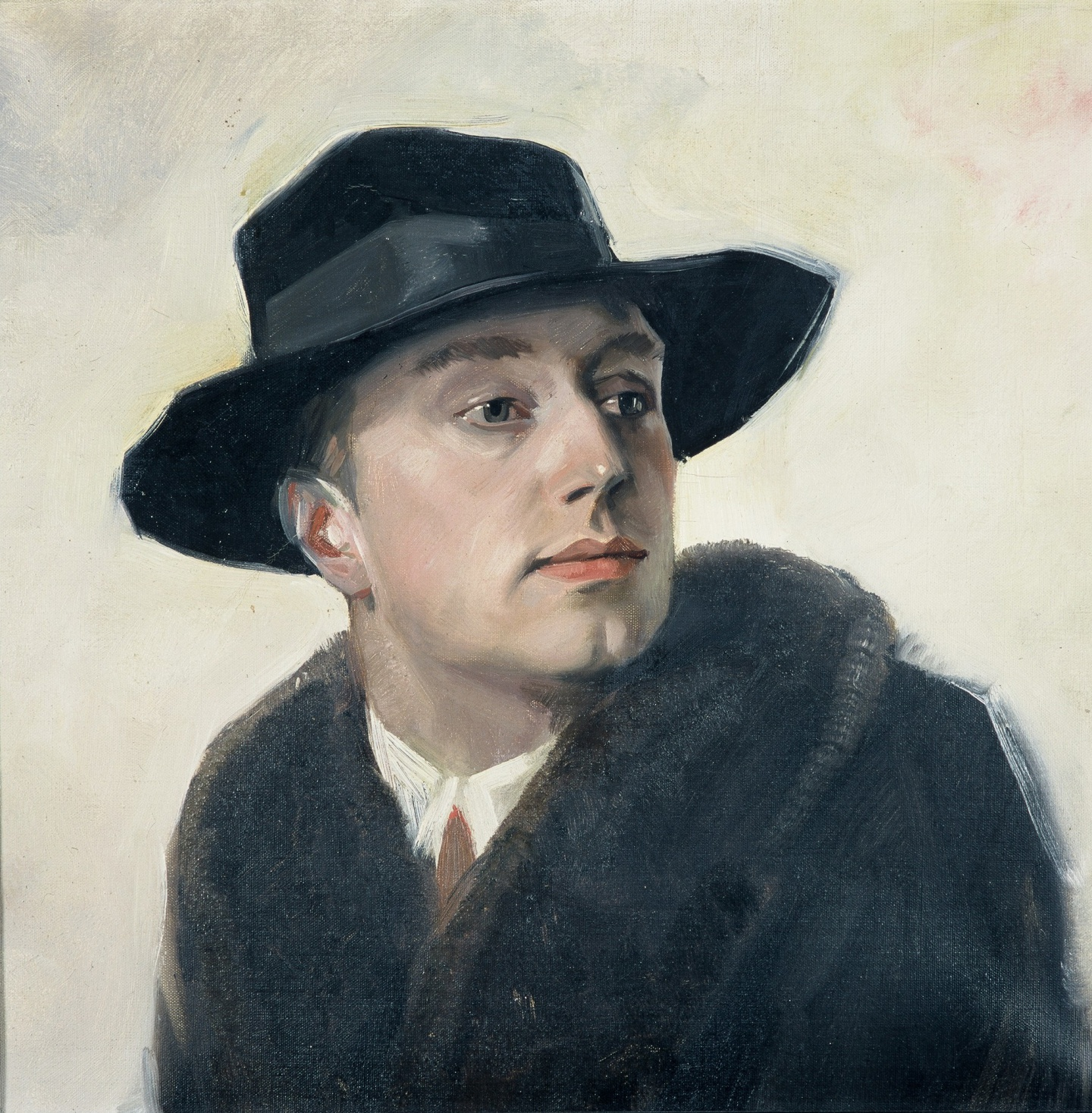 Portrait of Ben van Eysselsteijn by Han van Meegeren (1930)